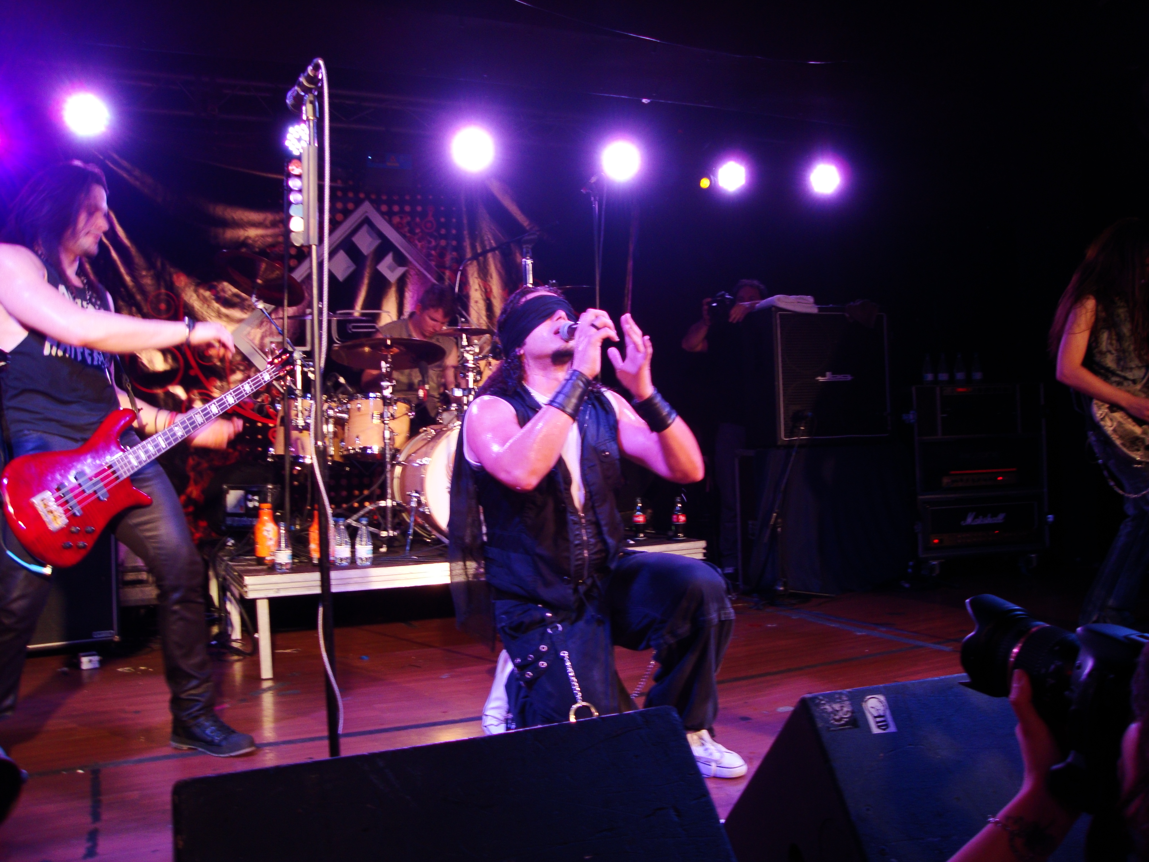 Jeff Scott Soto performing in Madrid